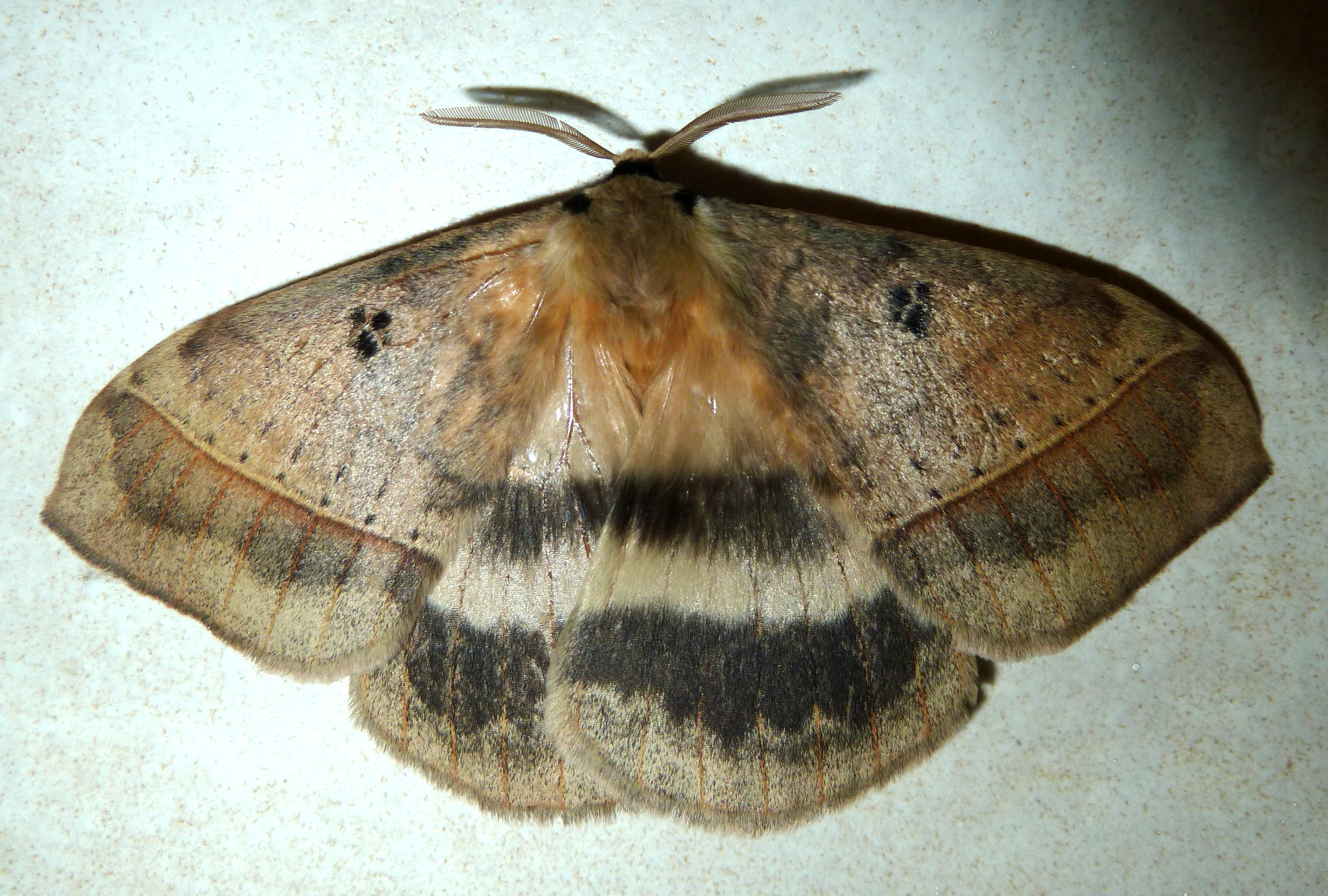 Jana e. eurymas at Seringveld near Pretoria